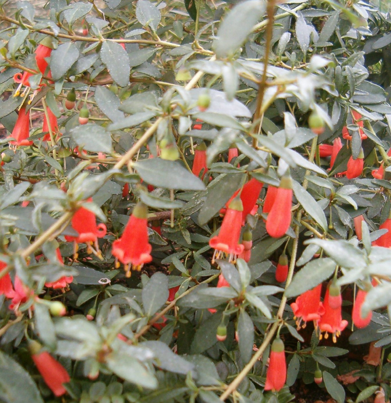 Location: Botanical Gardens Berlin Dahlem